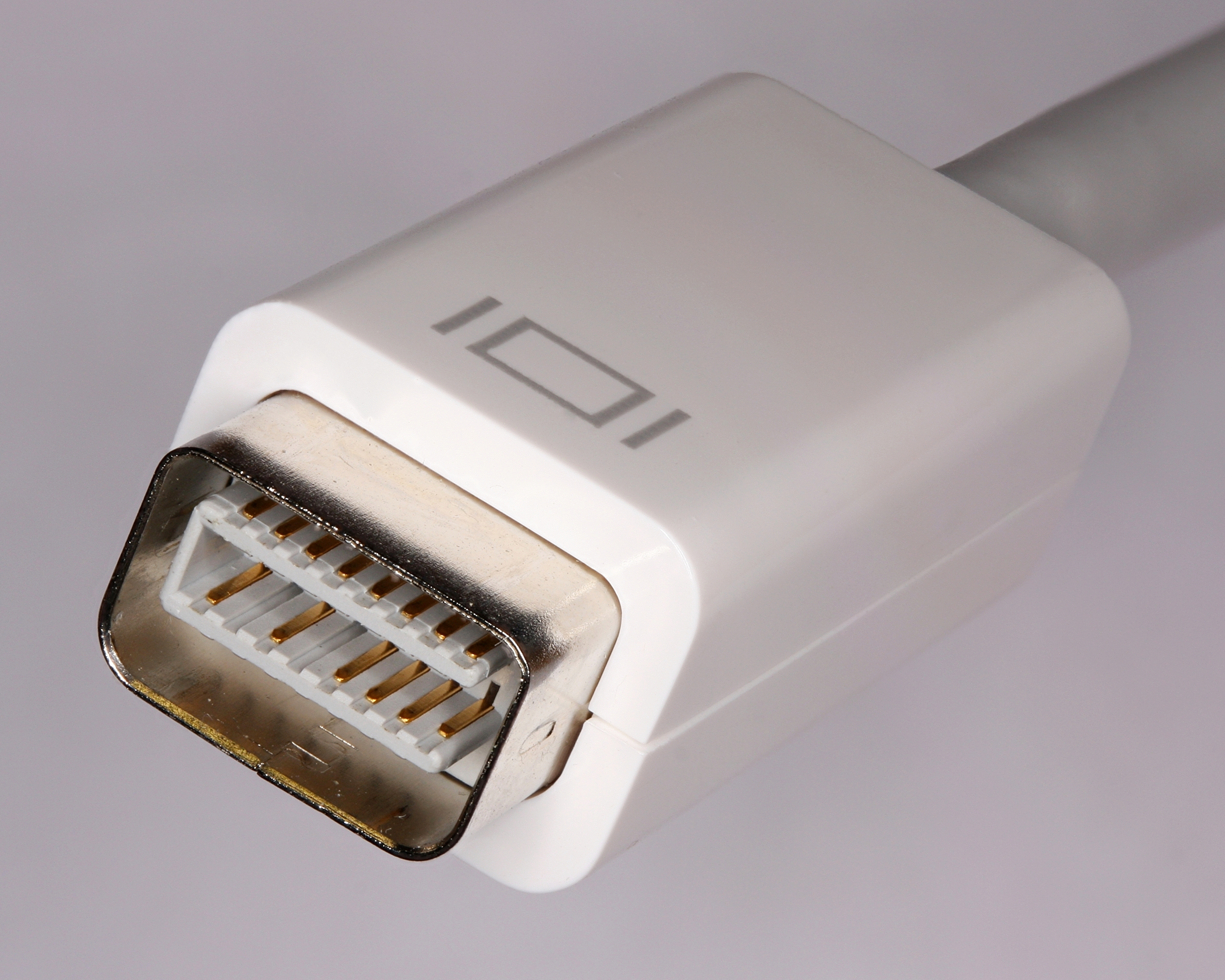 A male Mini-DVI connector